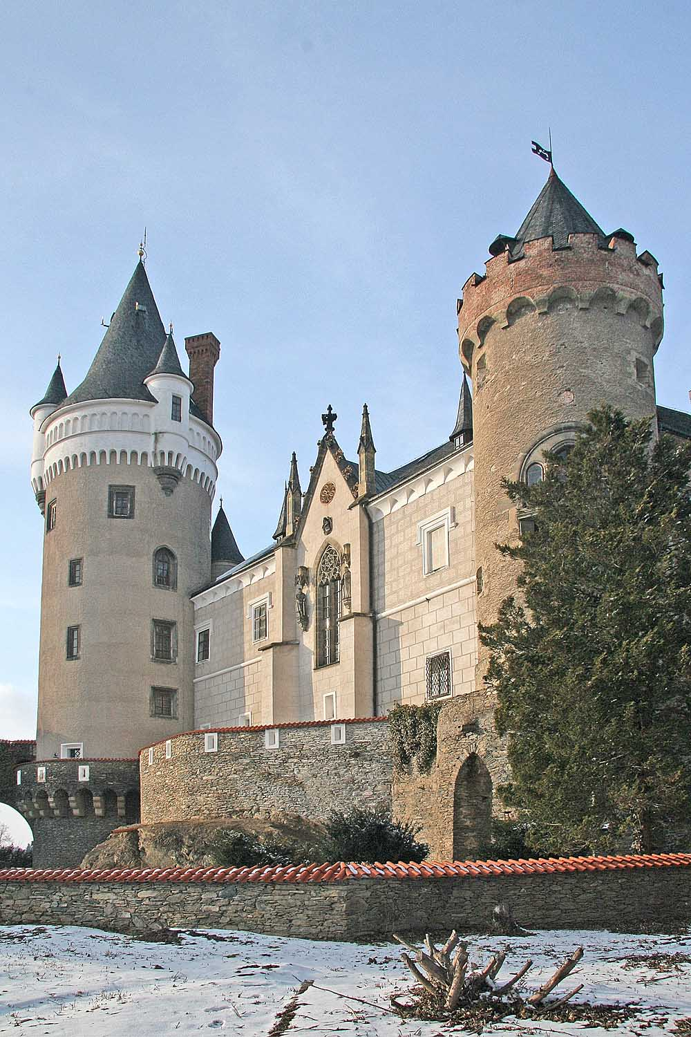 Castle Žleby, district Kutná Hora, Czech Republic autor: Prazak Date: 13. 3. 2006